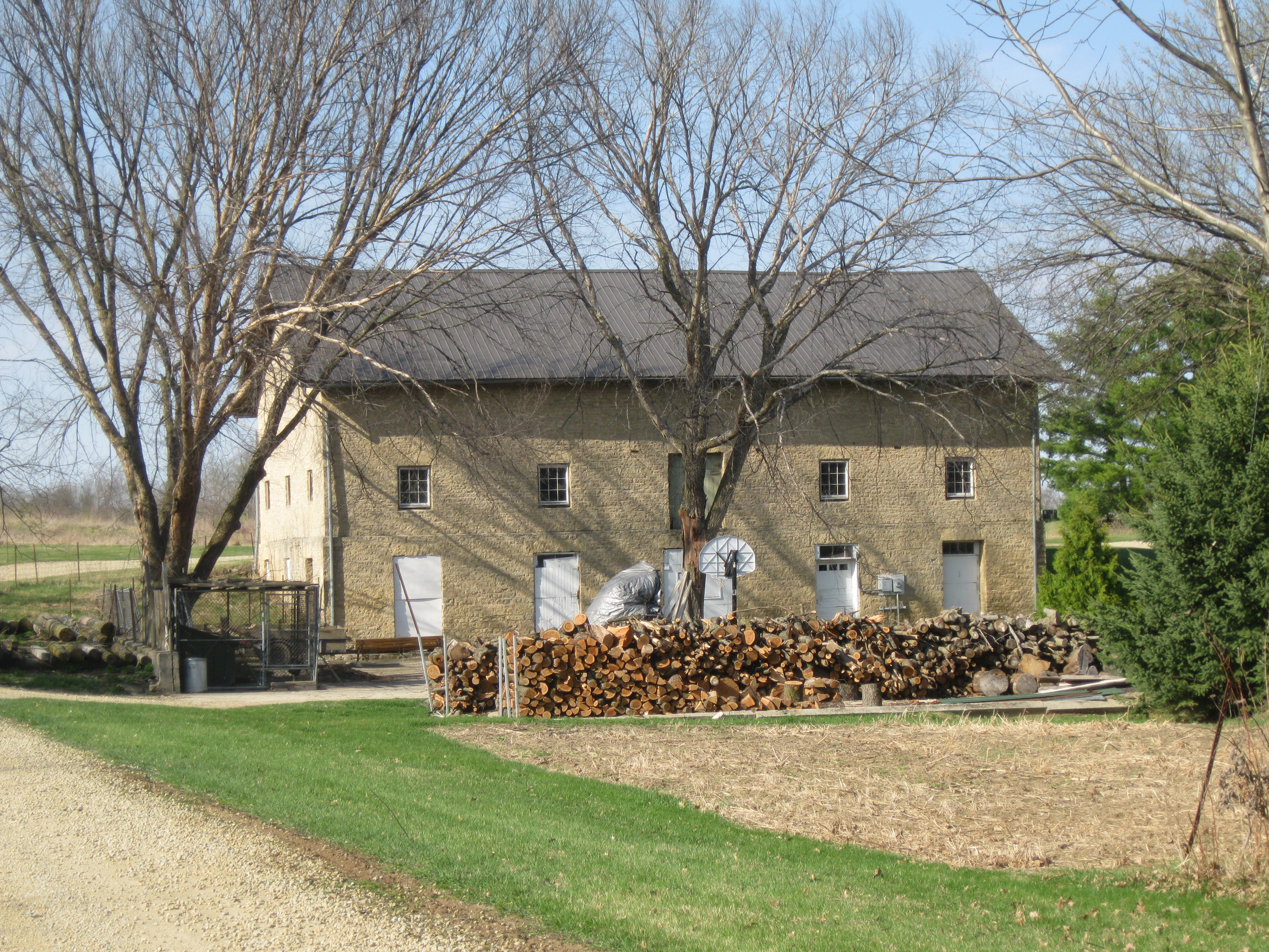 The Lockwood Barn, a stone barn located on Old Stage Road in Rutland, Wisconsin.